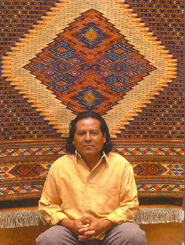 artist Arnulfo Mendoza of Oaxaca and Teotitlan Mexico